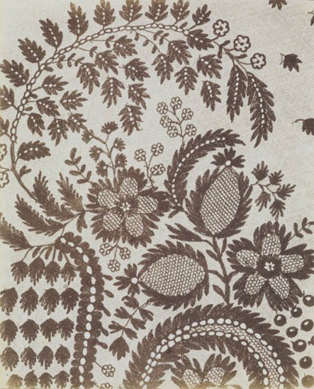 Untitled (lace), salted paper print after a photogenic drawing, circa 1845 (estimate $6,000 to $9,000) October 13, 2009 Česky: Bez názvu (lace), tisk na slaný papír - photogenic drawing, circa 1845 (odhadovaná cena $6,000 to $9,000 - 13. října 2009)